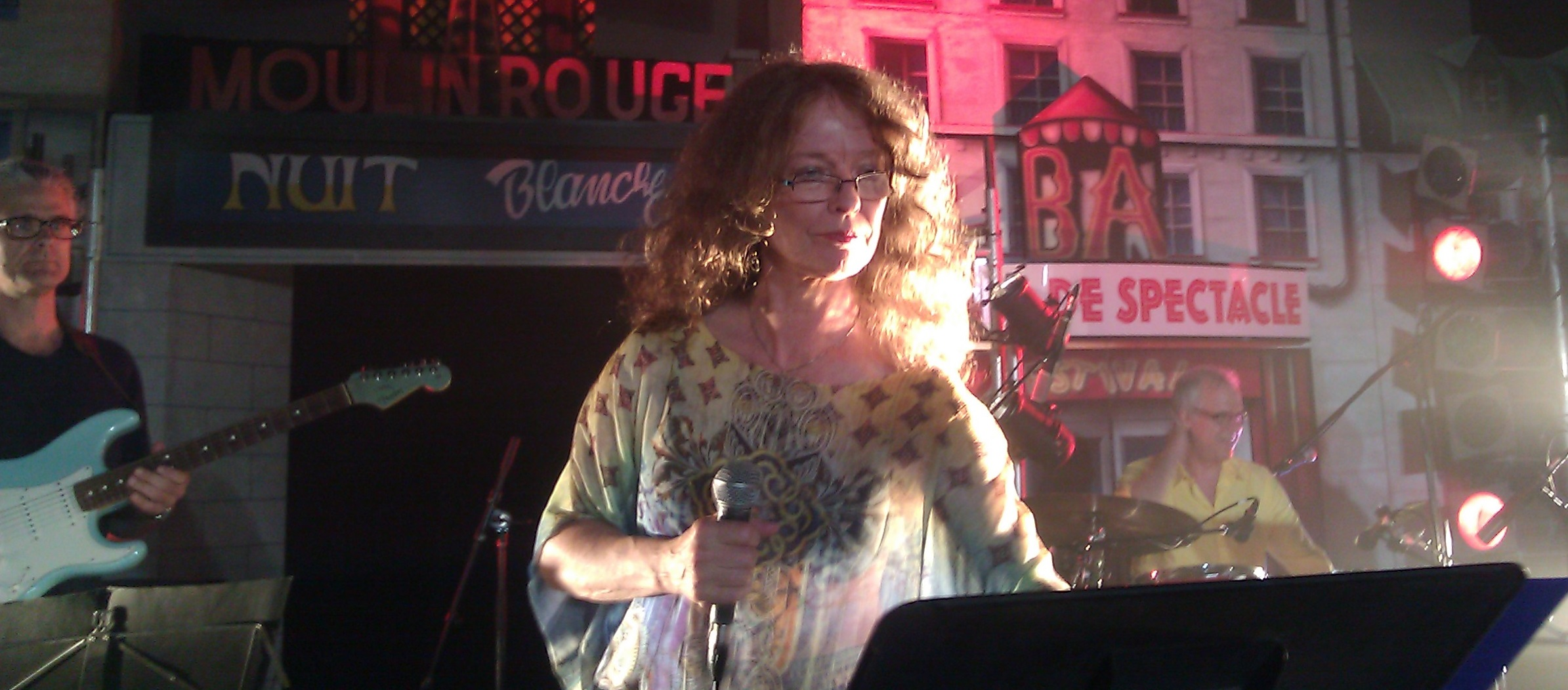 Karen Young photographed in Montreal, Quebec, Canada at the Marché Bonsecours.